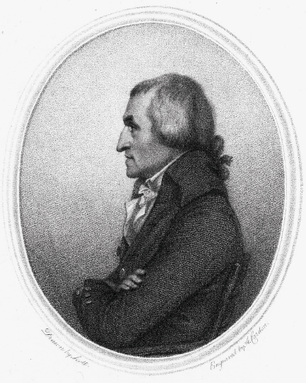 Portrait of the Major of Engineers James Rennell (1742-1830), british geograph and surveyor